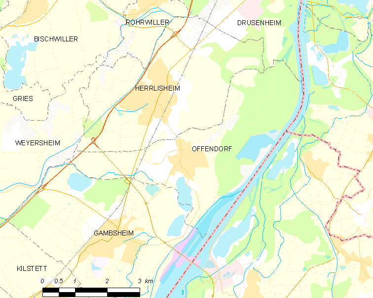 Map of French municipality